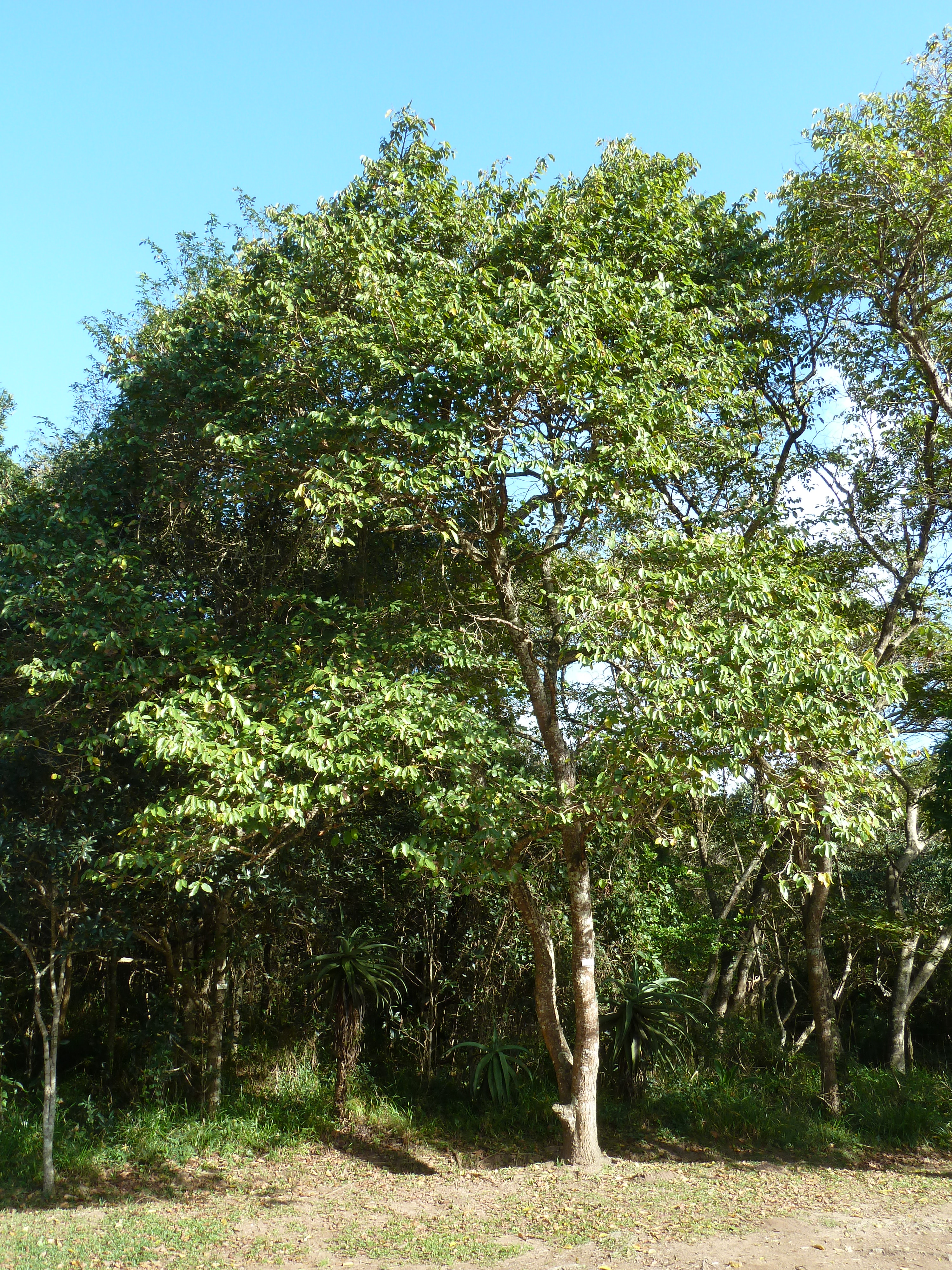 Coastal goldenleaf in the Kloof Falls picnic site in Krantzkloof Nature Reserve, KwaZulu-Natal